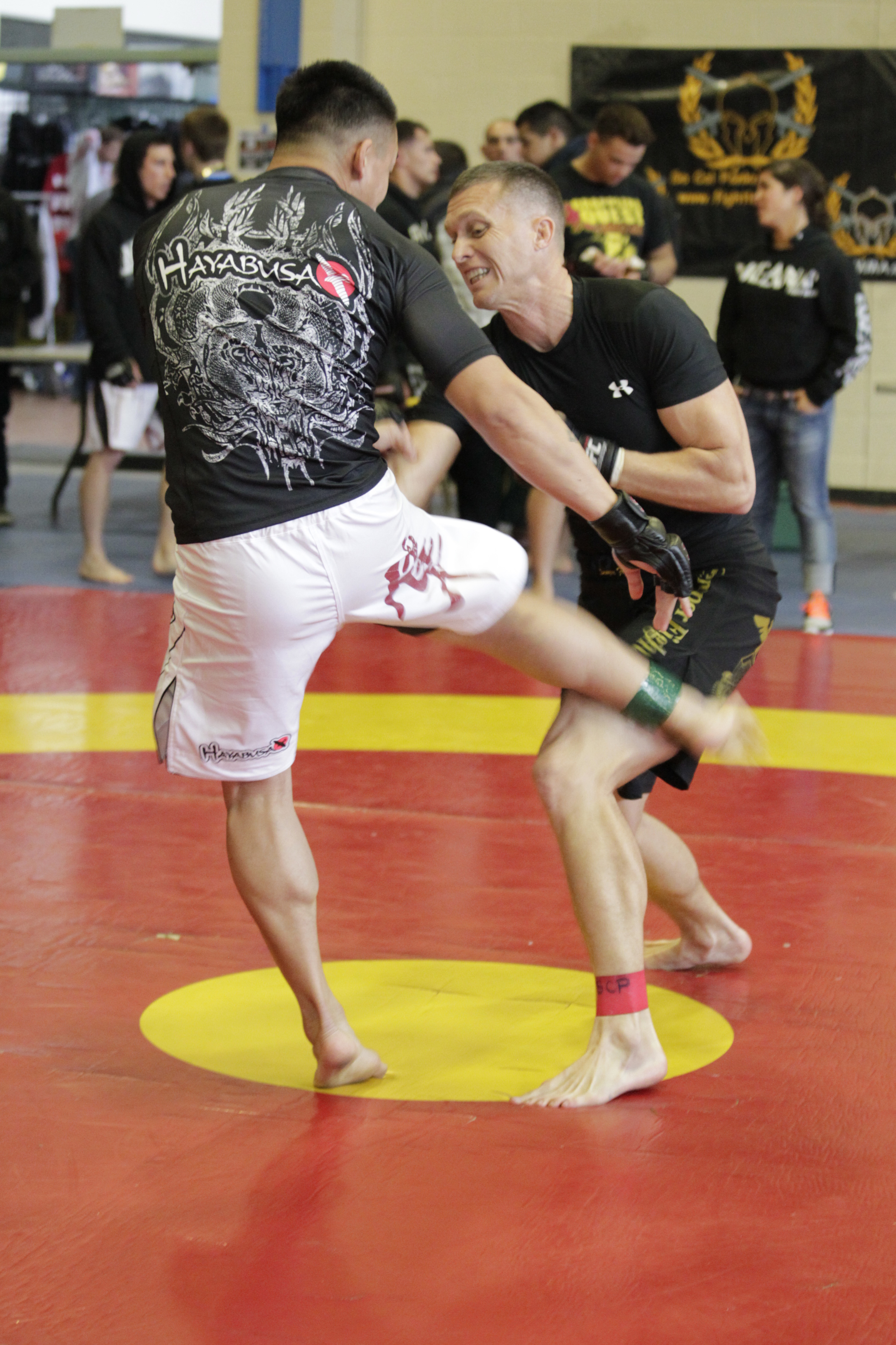 Bill Harrington [right], a fighter with Fight Club 29, tackles his opponent during the Camp Pendleton Pankration Invitation Feb. 26, 2011, in San Mateo, Calif.